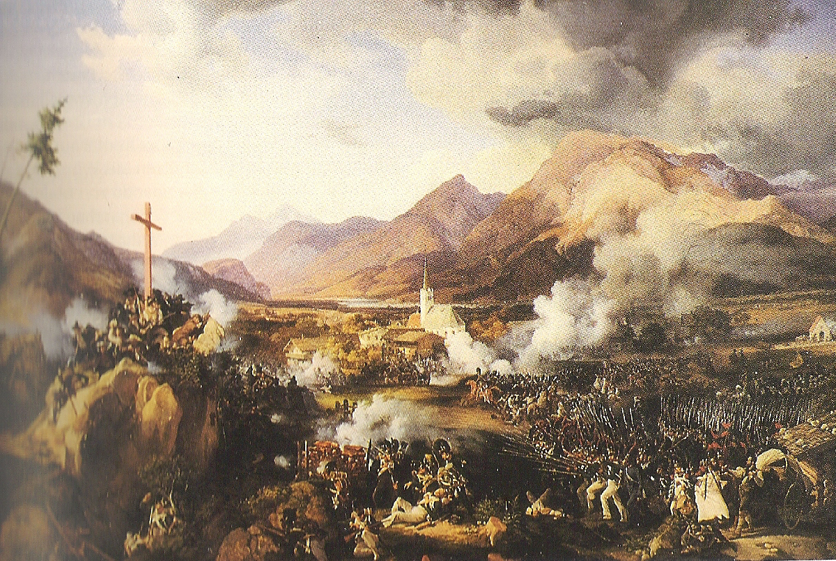 Picture of the "Battle at Wörgl" in 1809.